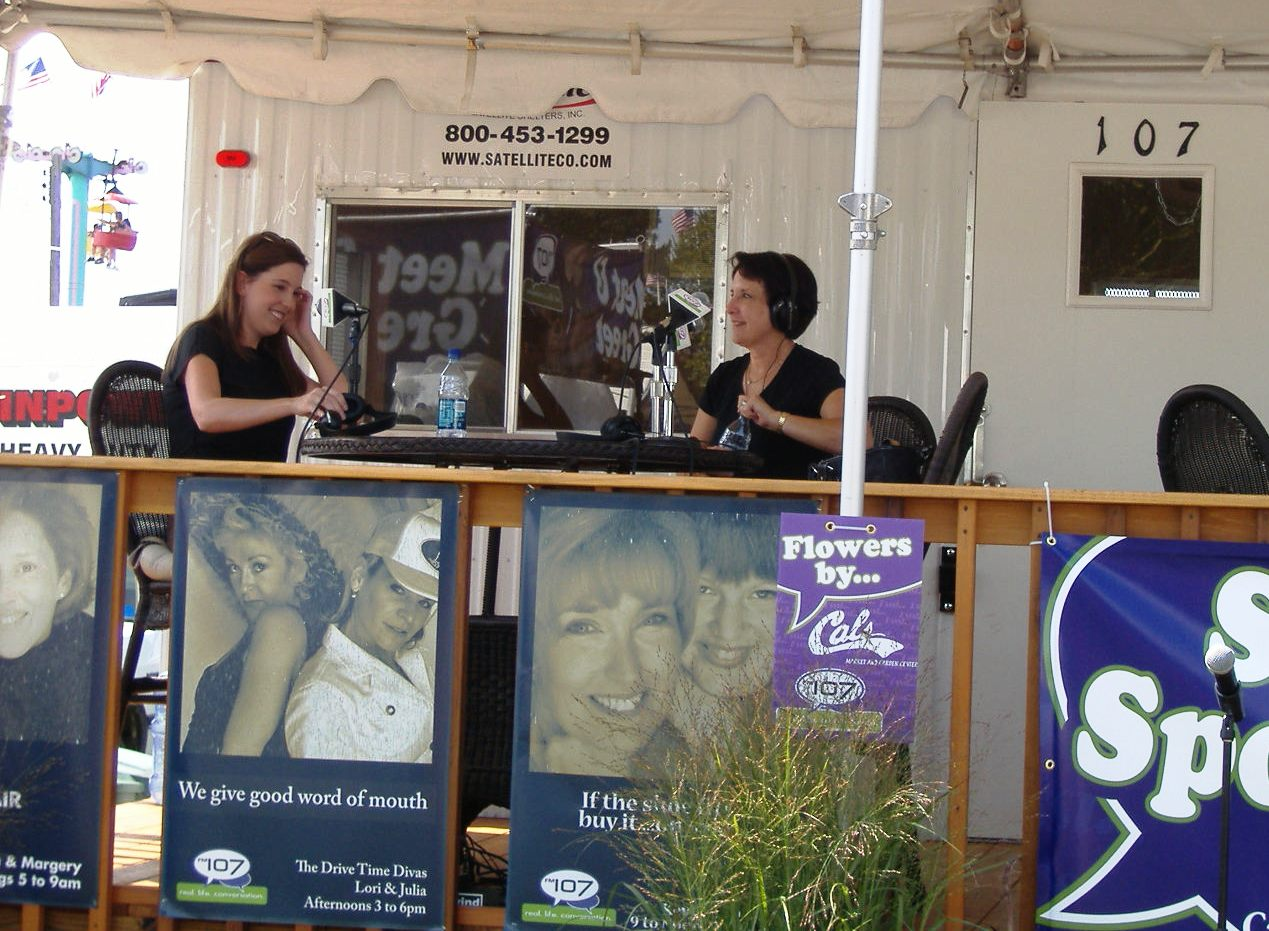 WFMP, FM 107 radio at the Minnesota State Fair